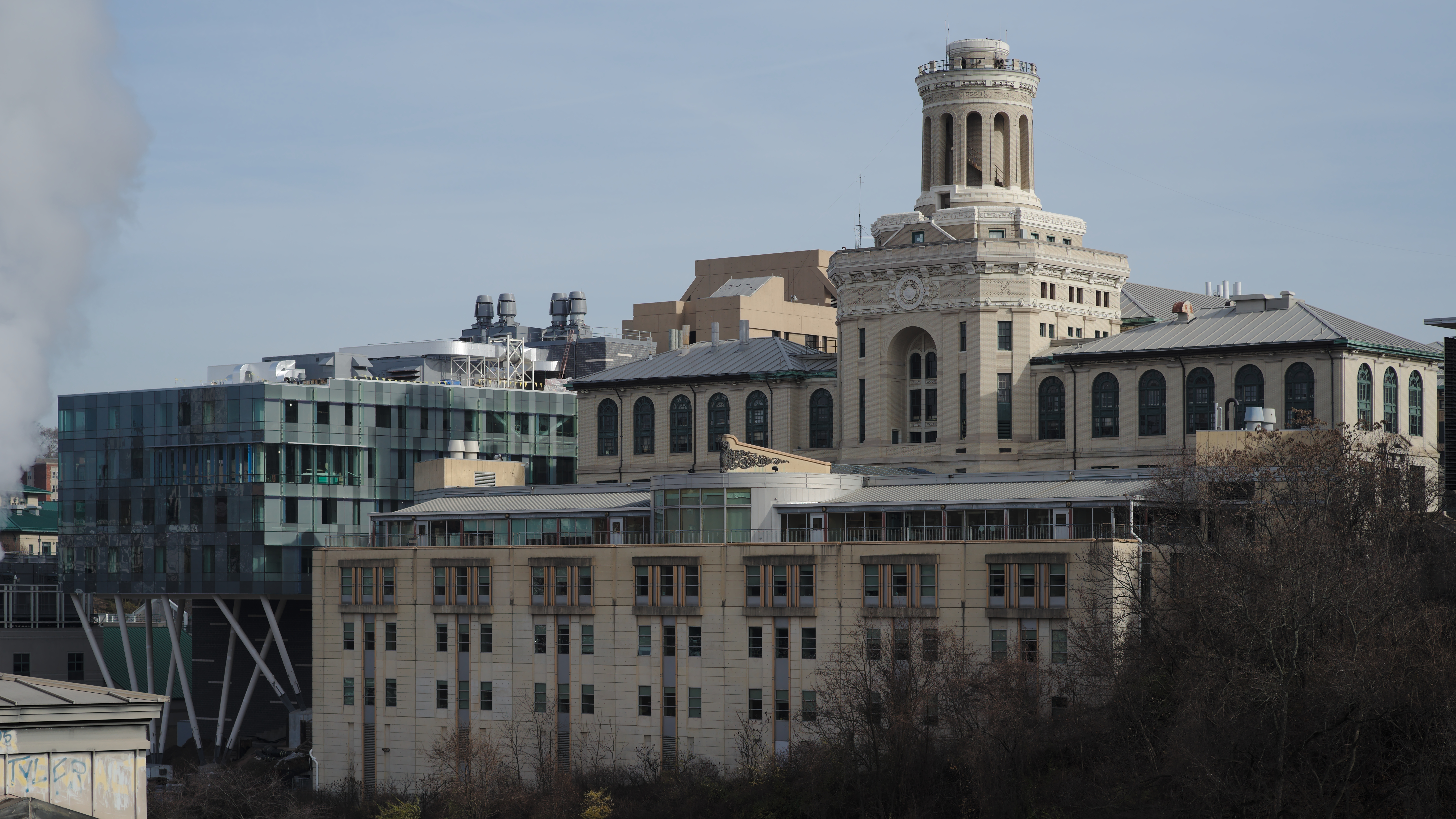 Hamerschlag Hall (right) and Scott Hall (left) at Carnegie Mellon University, as seen from Schenley Bridge.